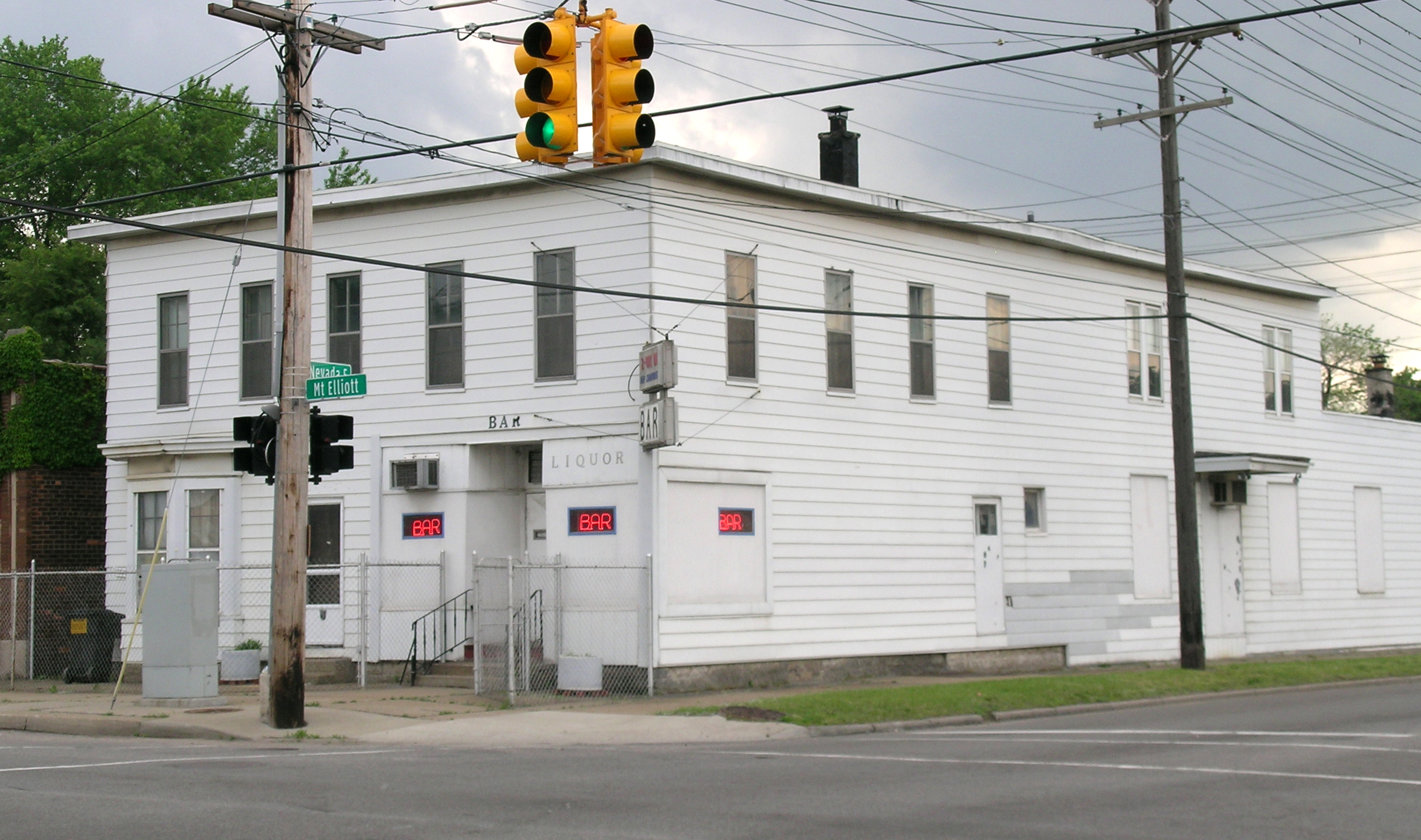 The Two Way Inn, Detroit